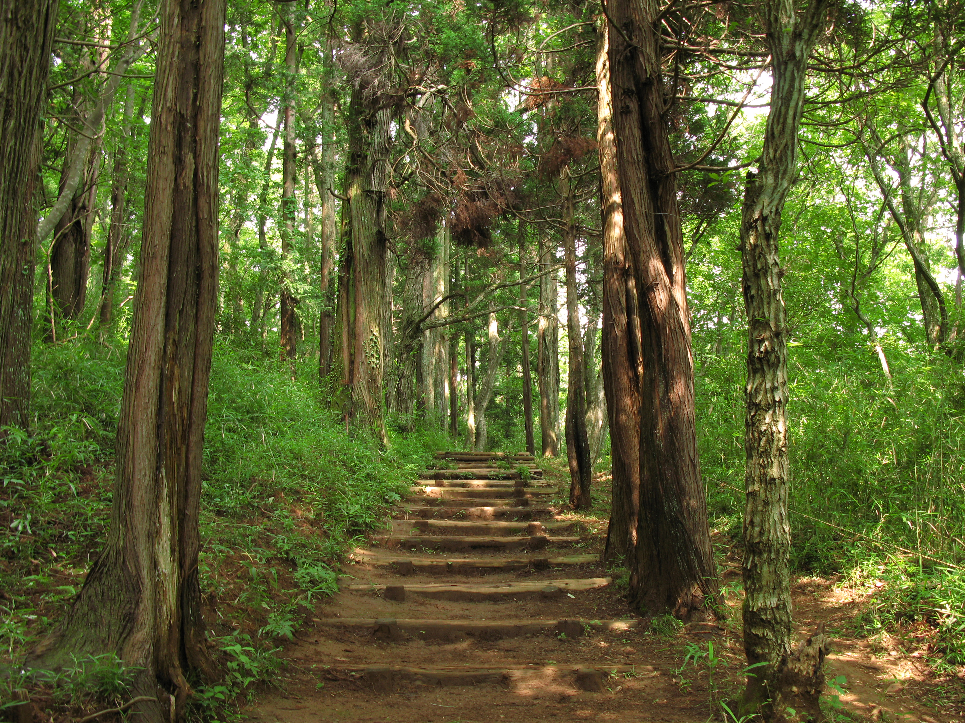 A walkway through a Sugi forest in Showa-No-Mori Park, near Chiba City, Chiba Prefecture, Japan.